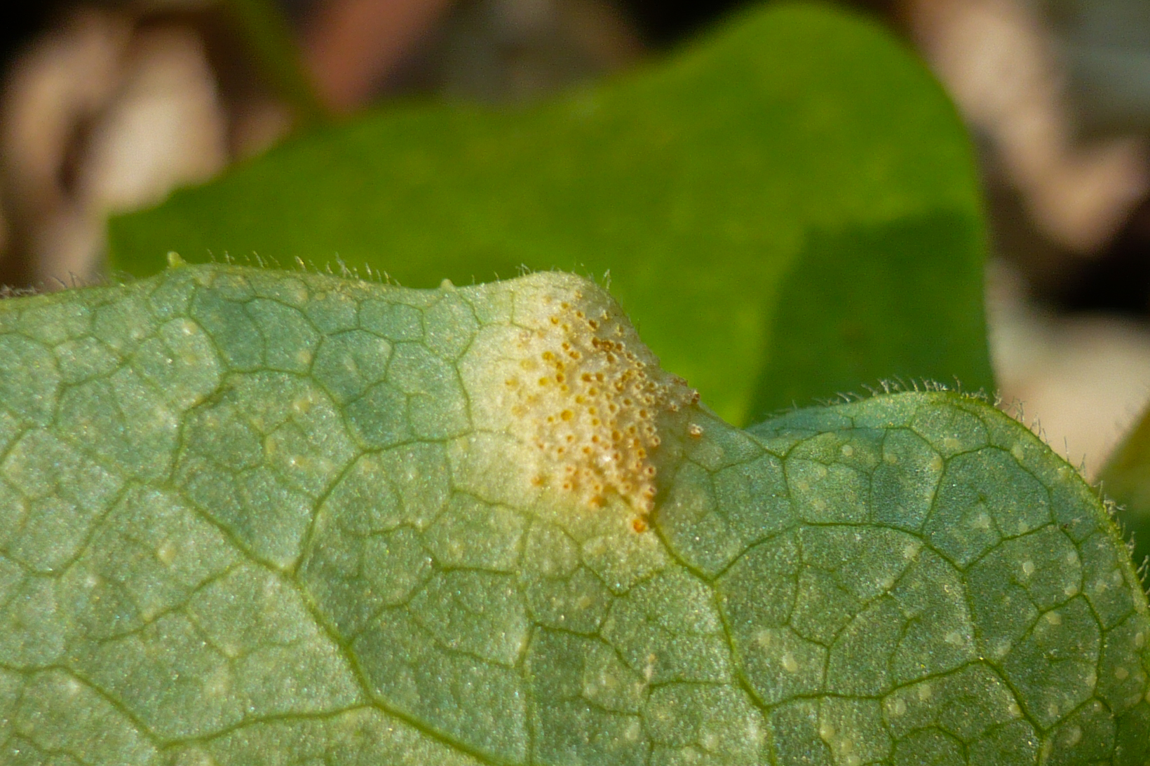 Aecia of Allodus podophylli on May Apple. Bethabara Park, April 4th, 2012.